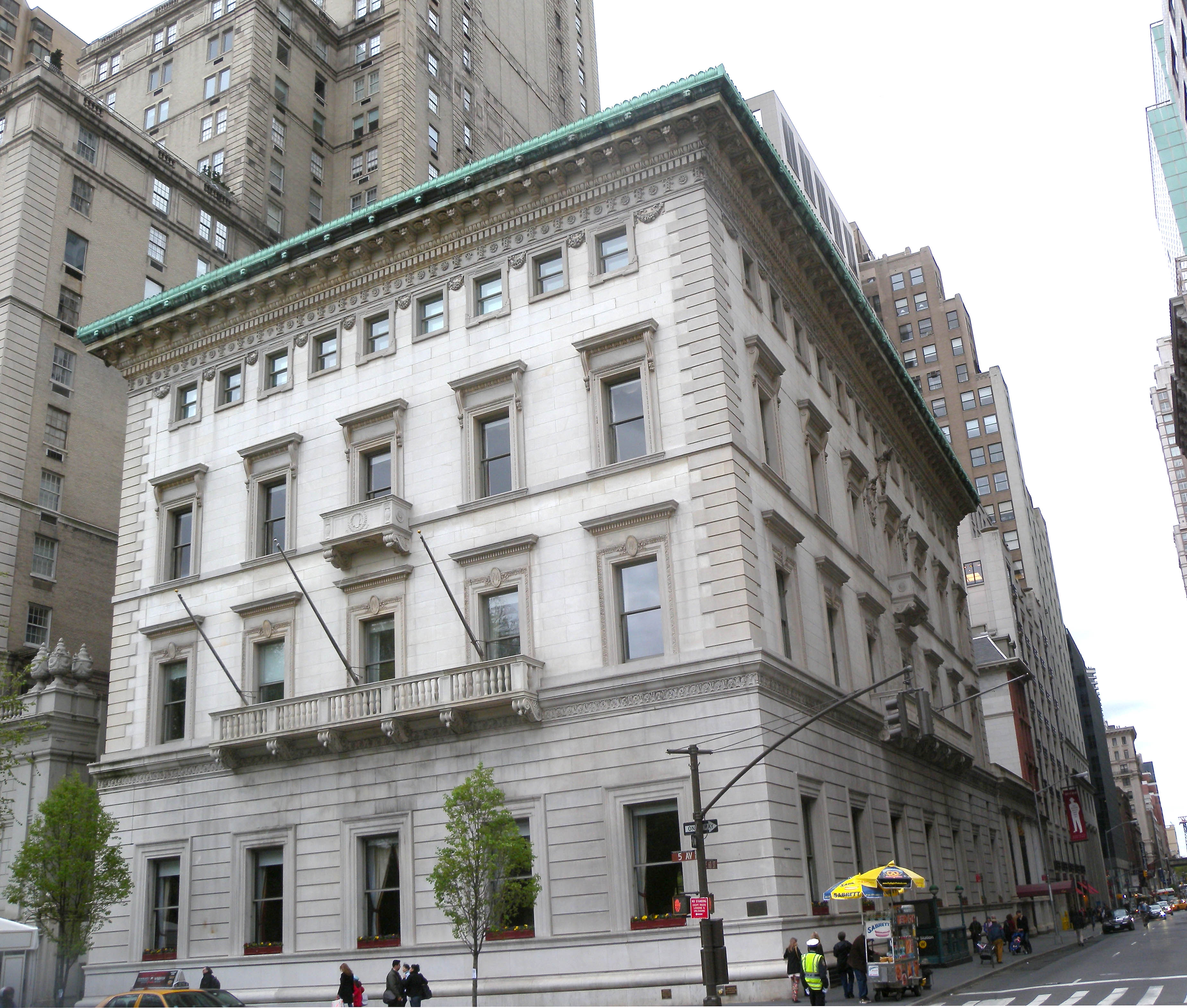 Looking east at Metropolitan Club on a cloudy afternoon.